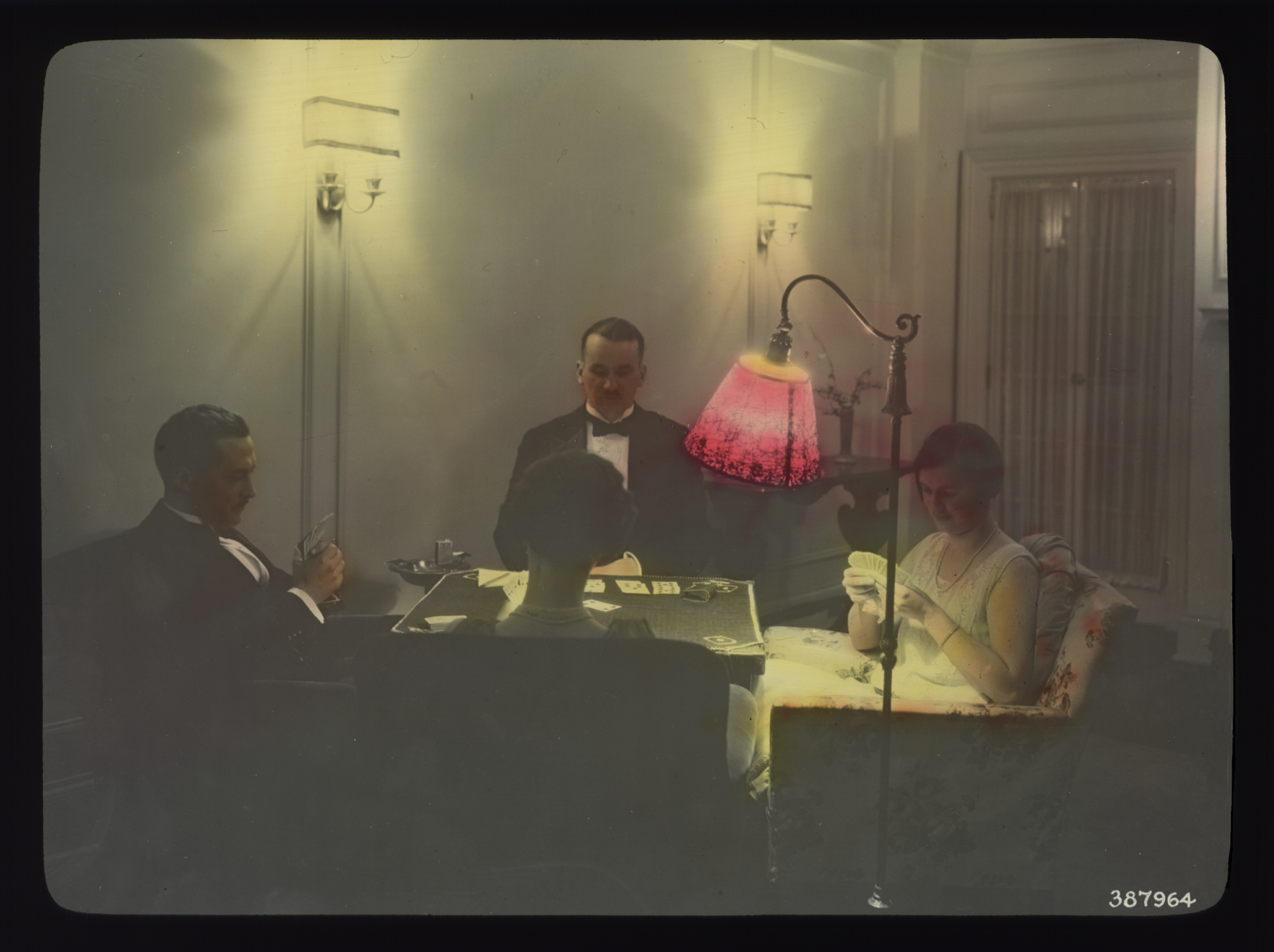 Mixed foursome playing cards, possibly bridge or a similar game, Seattle, Washington, USA c. 1930s Item 78072, City Light Glass Lantern Slides (Record Series 1204-03), Seattle Municipal Archives.